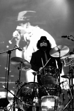 Alfredo Ortiz performing with the Beastie Boys